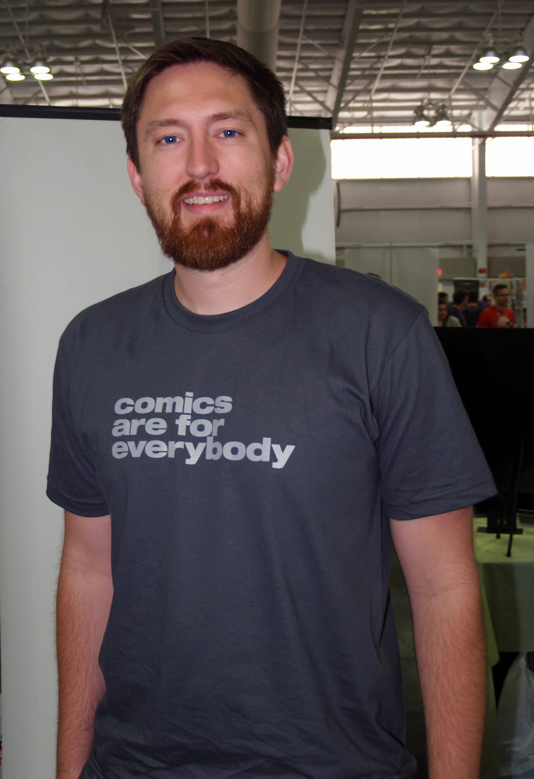 Comics writer and filmmaker Kyle Higgins on Saturday, June 14, 2014, Day 1 of Special Edition NYC, a comic book convention at the Jacob K. Javits Convention Center in Manhattan. This photo was created by Luigi Novi. It is not in the public domain, and use of this file outside of the licensing terms is a copyright violation.